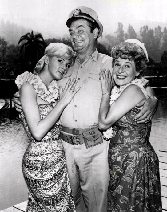 Photo of Rochelle Rac, Ernest Borgnine as McHale and Jane Dulo from the television program McHale's Navy.